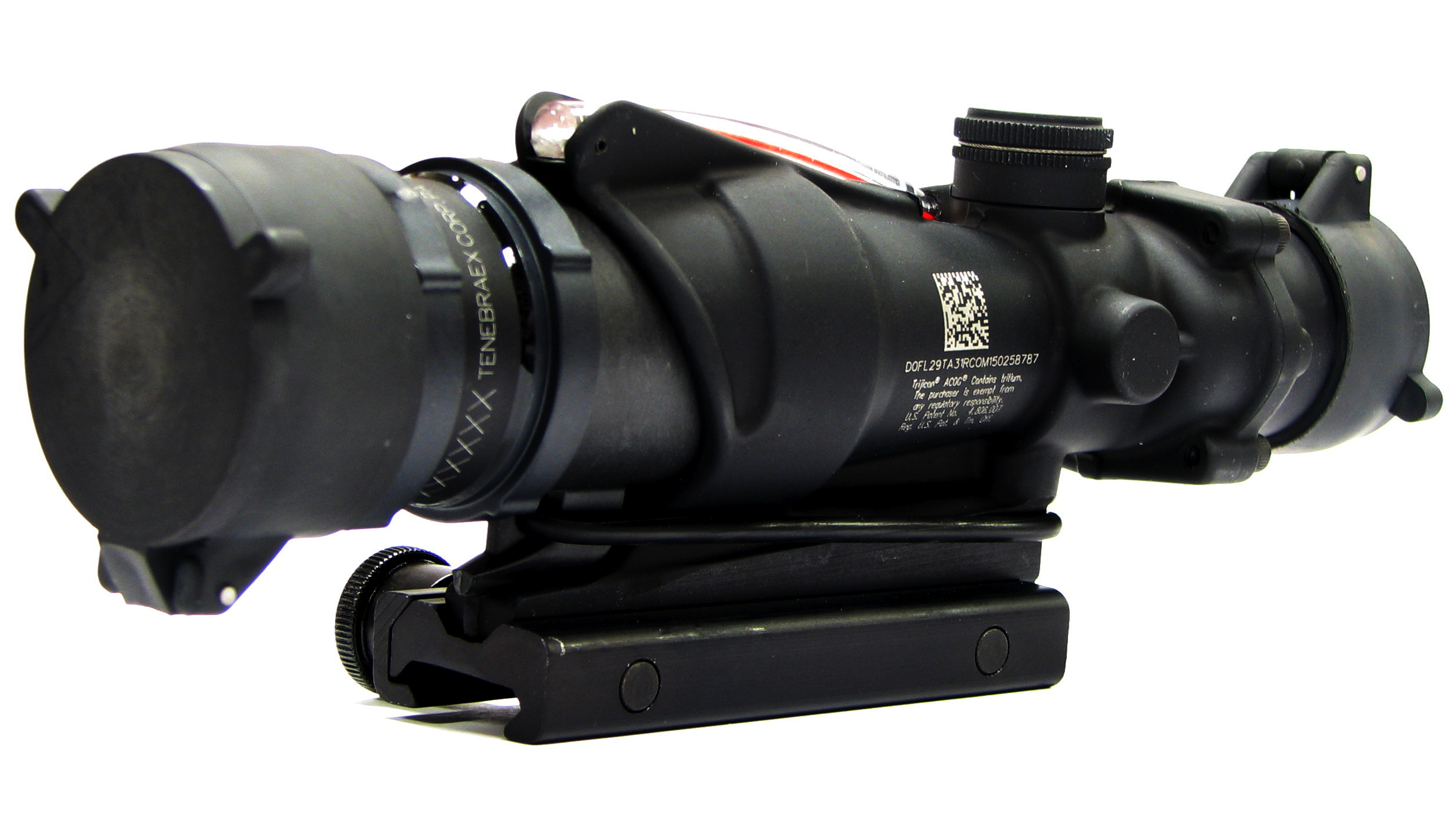 The M150 Rifle Combat Optic (RCO) (TA31RCO-M150CP ACOG) provides an improved capability to recognize and engage targets from 300 to 600 meters with the M4, M16A2, M16A4, and M249 weapons.